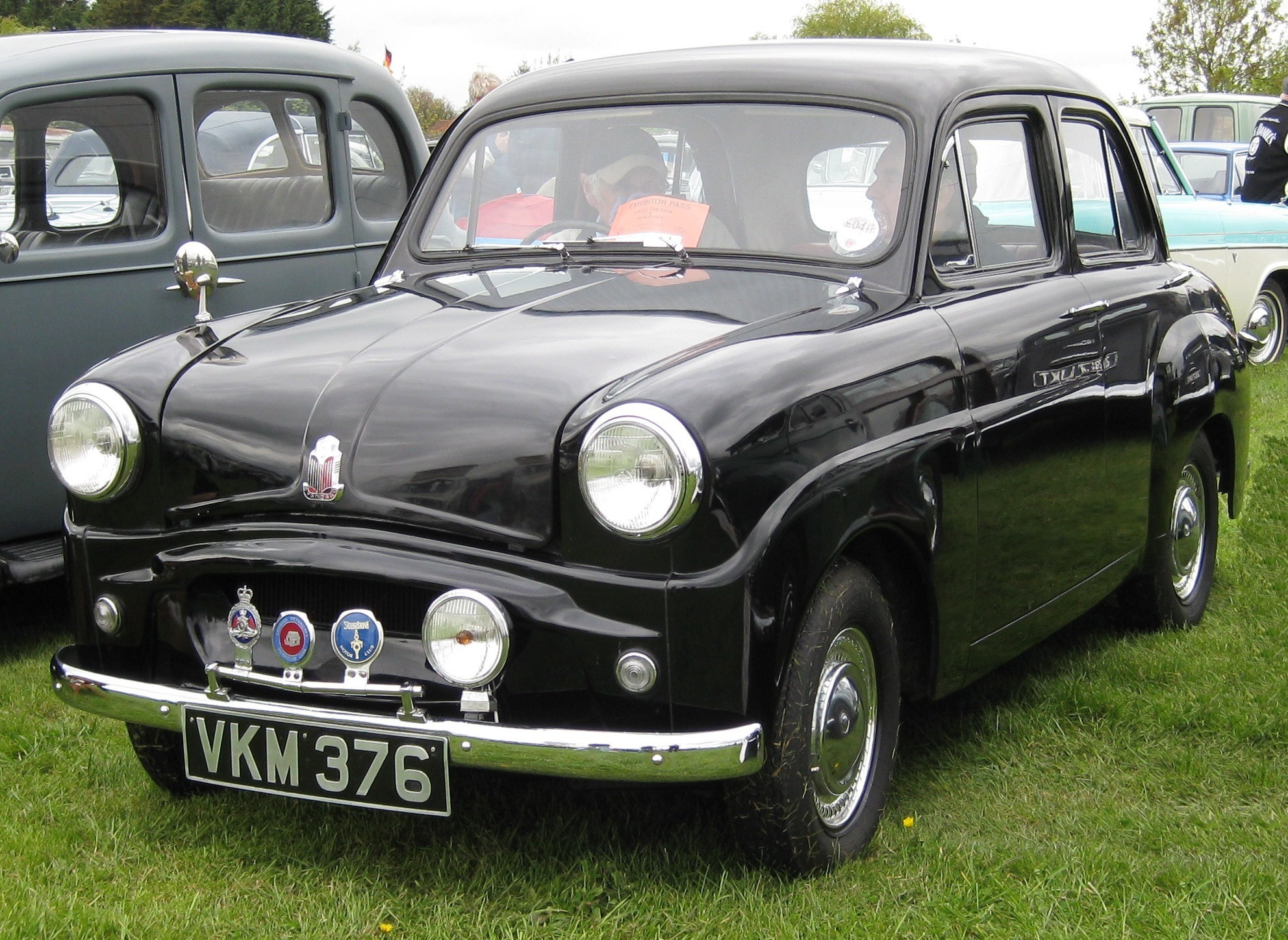 This replaces an image I uploaded five minutes ago. I've replaced an erroneously cropped corner with grass and covered over the distracting wing of an adjacent Morris Minor with more grass (rather clumsily, I'm afraid, but you have to look closely to notice).